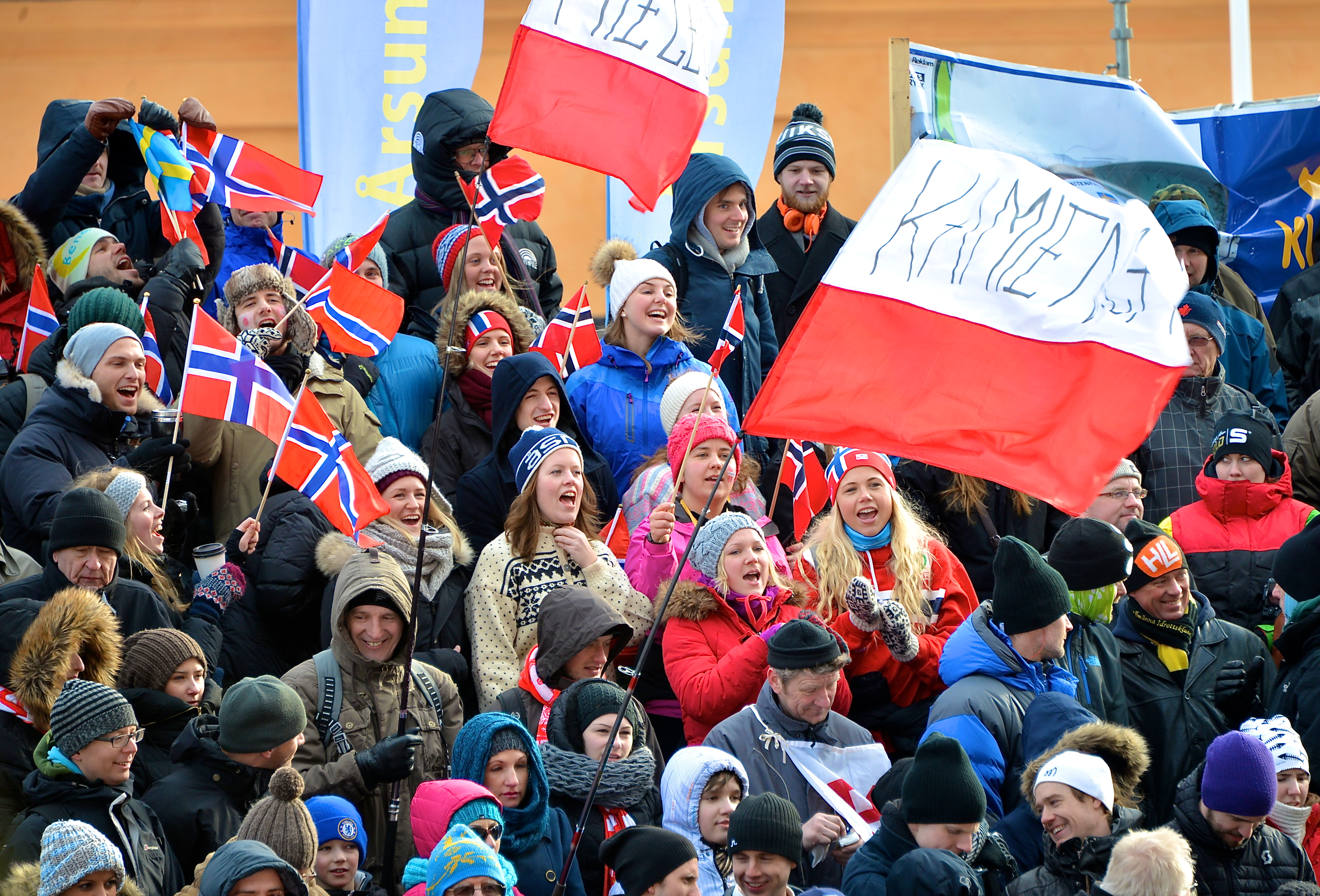 Norwegian fan squad at the Royal Palace Sprint, part of the FIS World Cup 2012/2013, in Stockholm on March 20, 2013.